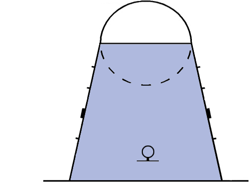 old basketball